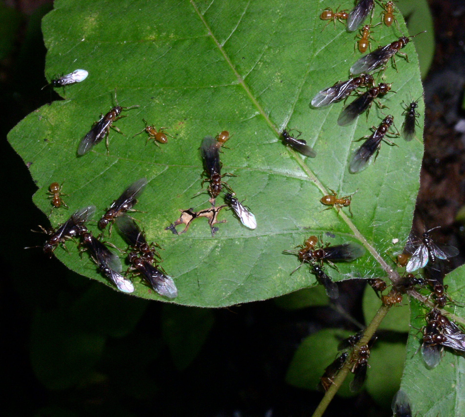 Citronella ants, Lasius, preparing for nuptial flight, males and females. Pennypack Restoration Trust, Montgomery County, Pennsylvania, USA.